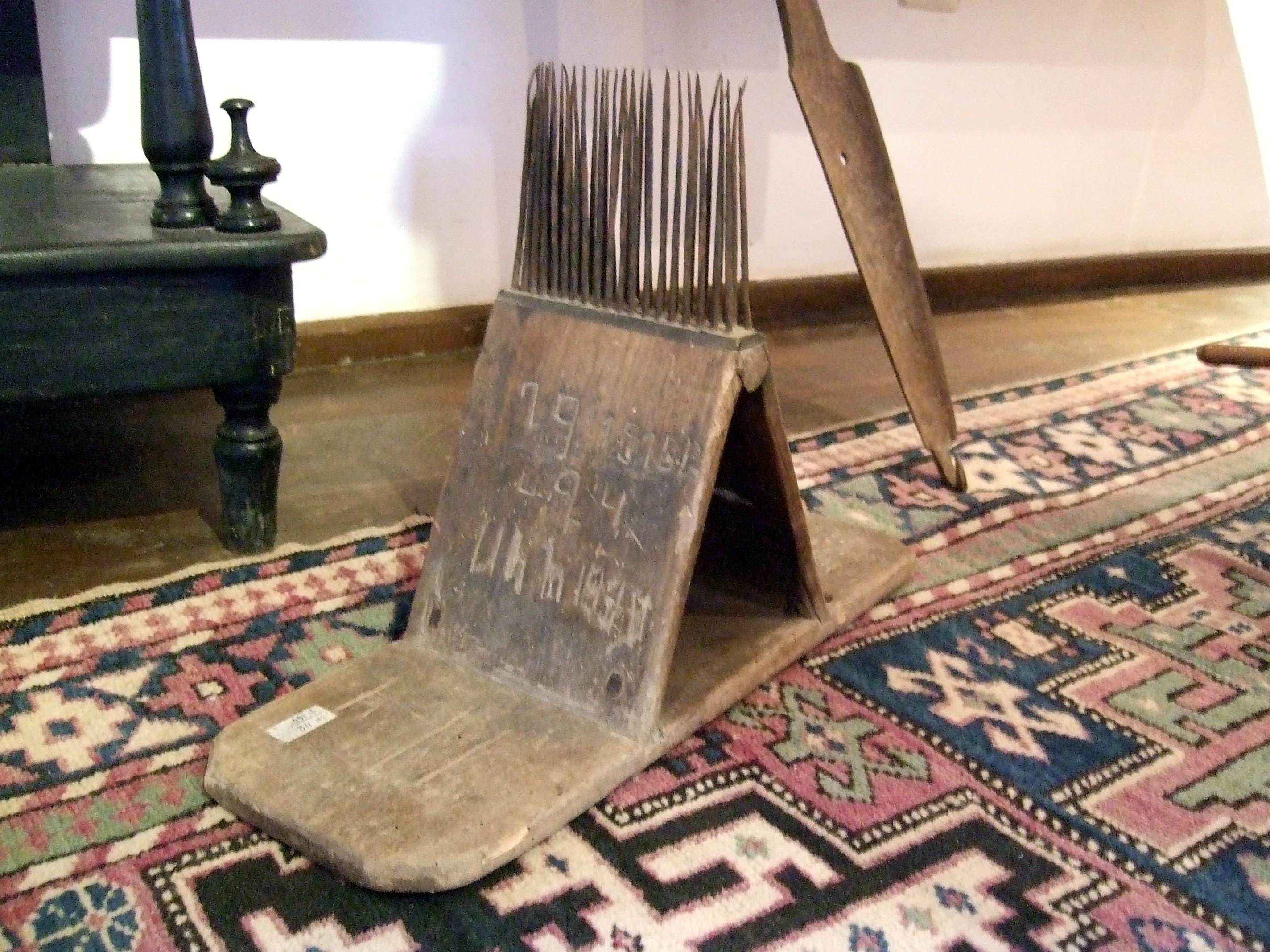 Wool carding comb in Dilijan Historical and Cultural Reserve Museum